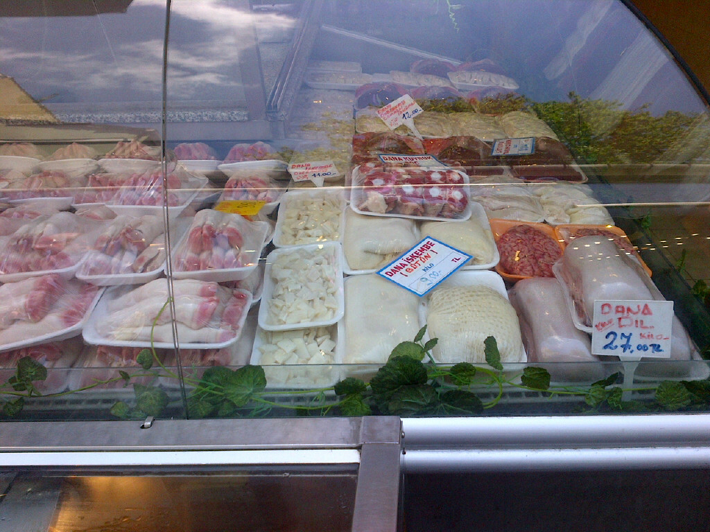 Lengua y tripas de vaca, rabo de toro, "kuzu paça" (pezunas de cordero u oveja), sesos y algunos otros productos de menudencias en una casqueria en e Mercado Historico de Kadıköy, Istanbul.